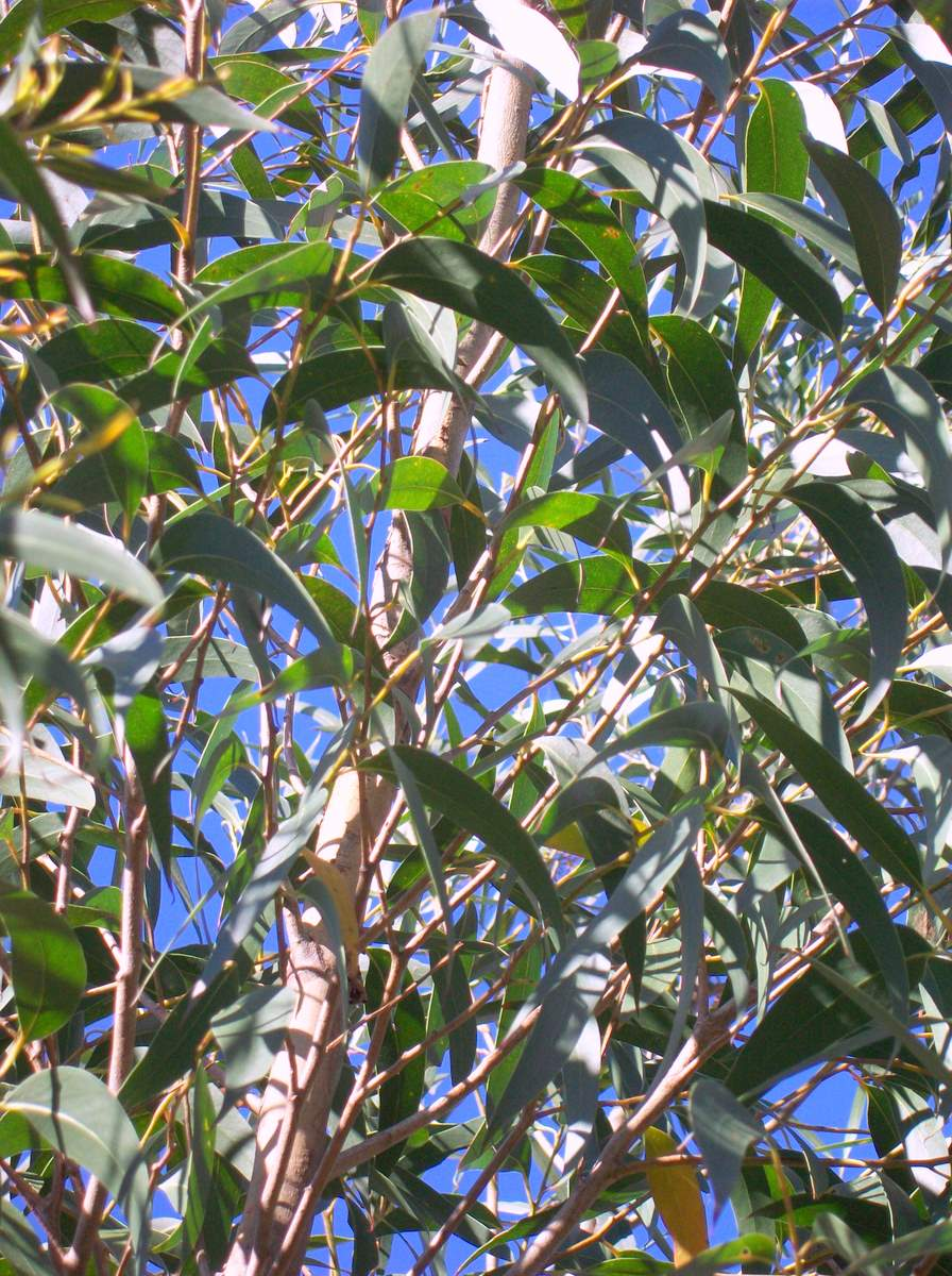 Eucalyptus dendromorpha, leaves. Eurobodalla Botanic Gardens, Batemans Bay, Australia